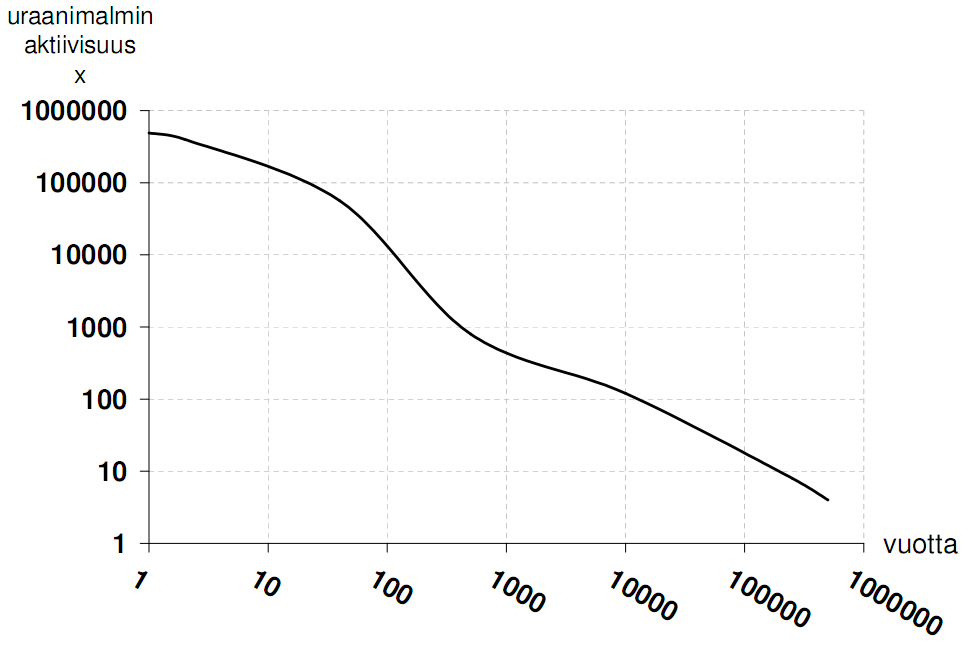 Radioactivity decay of spent nuclear fuel compared to radioactivity of uranium ore (kilogram to kilogram). Plotted as described in Finnish Radiation and Nuclear Safety Authority (STUK) homepage: [1] (in finnish)